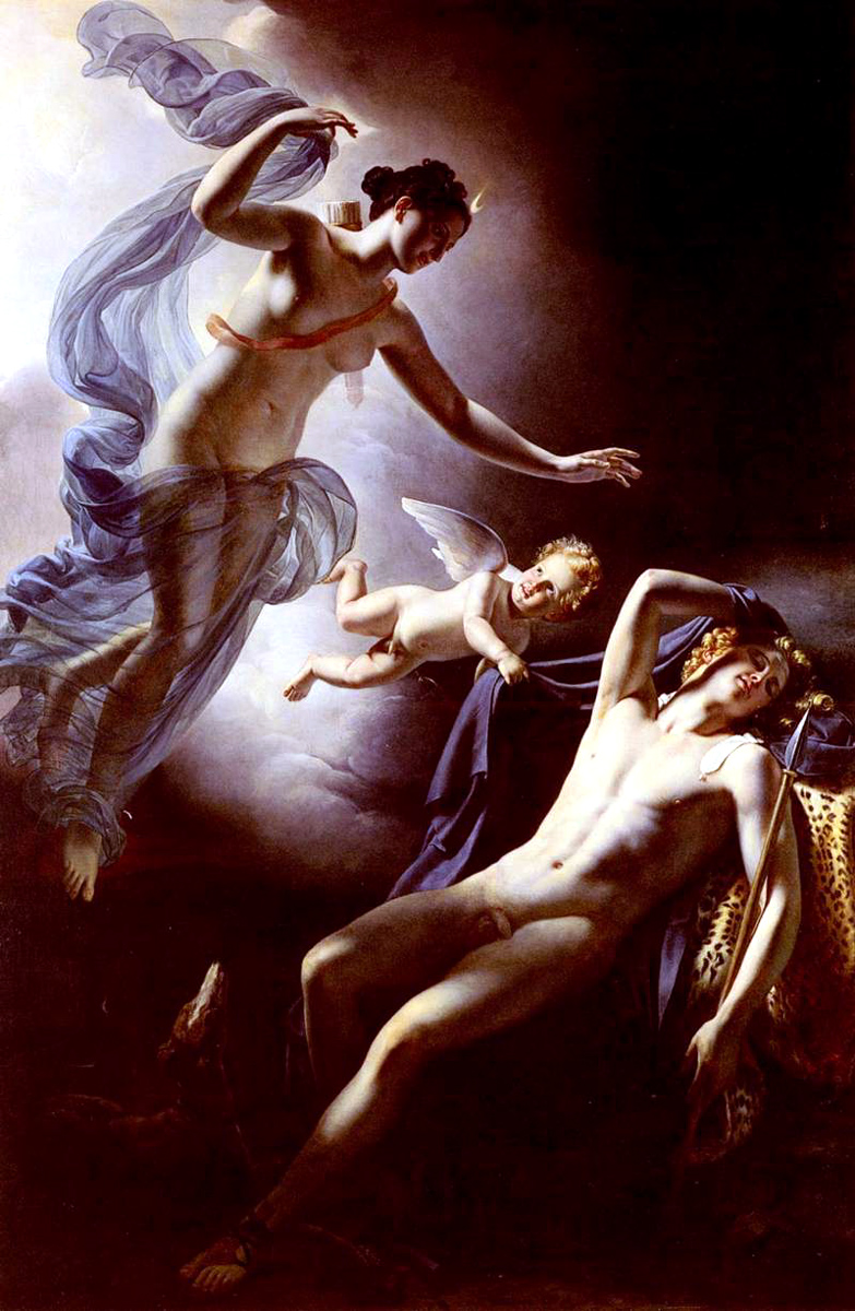 Diane and Endymion.